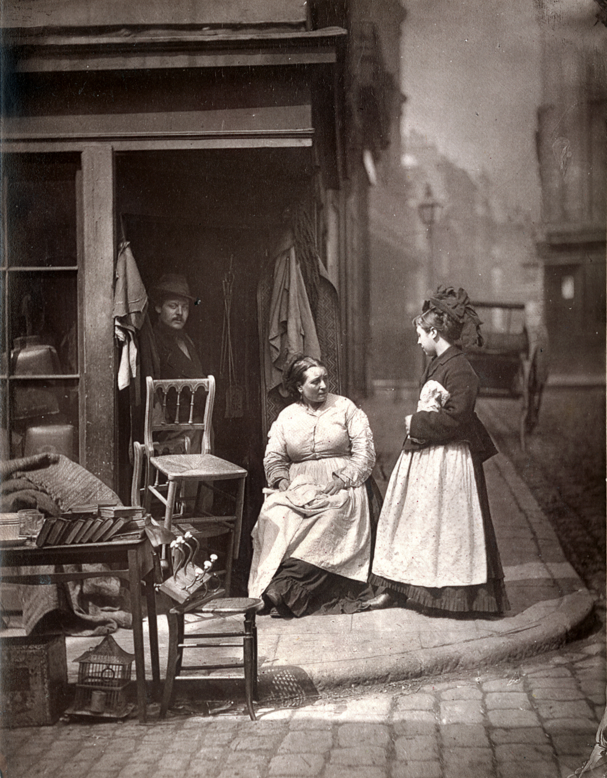 From 'Street Life in London', 1877, by John Thomson and Adolphe Smith: "At the corner of Church Lane, Holborn, there was a second-hand furniture dealer, whose business was a cross between that of a shop and a street stall. The dealer was never satisfied unless the weather allowed him to disgorge nearly the whole of his stock into the middle of the street, a method which alone secured the approval and custom of his neighbours. As a matter of fact, the inhabitants of Church Lane were nearly all what I may term “street folks” – living, buying, selling, transacting all their business in the open street. It was a celebrated resort for tramps and costers of every description." For the full story, and other photographs and commentaries, follow this link and click through to the PDF file at the bottom of the description